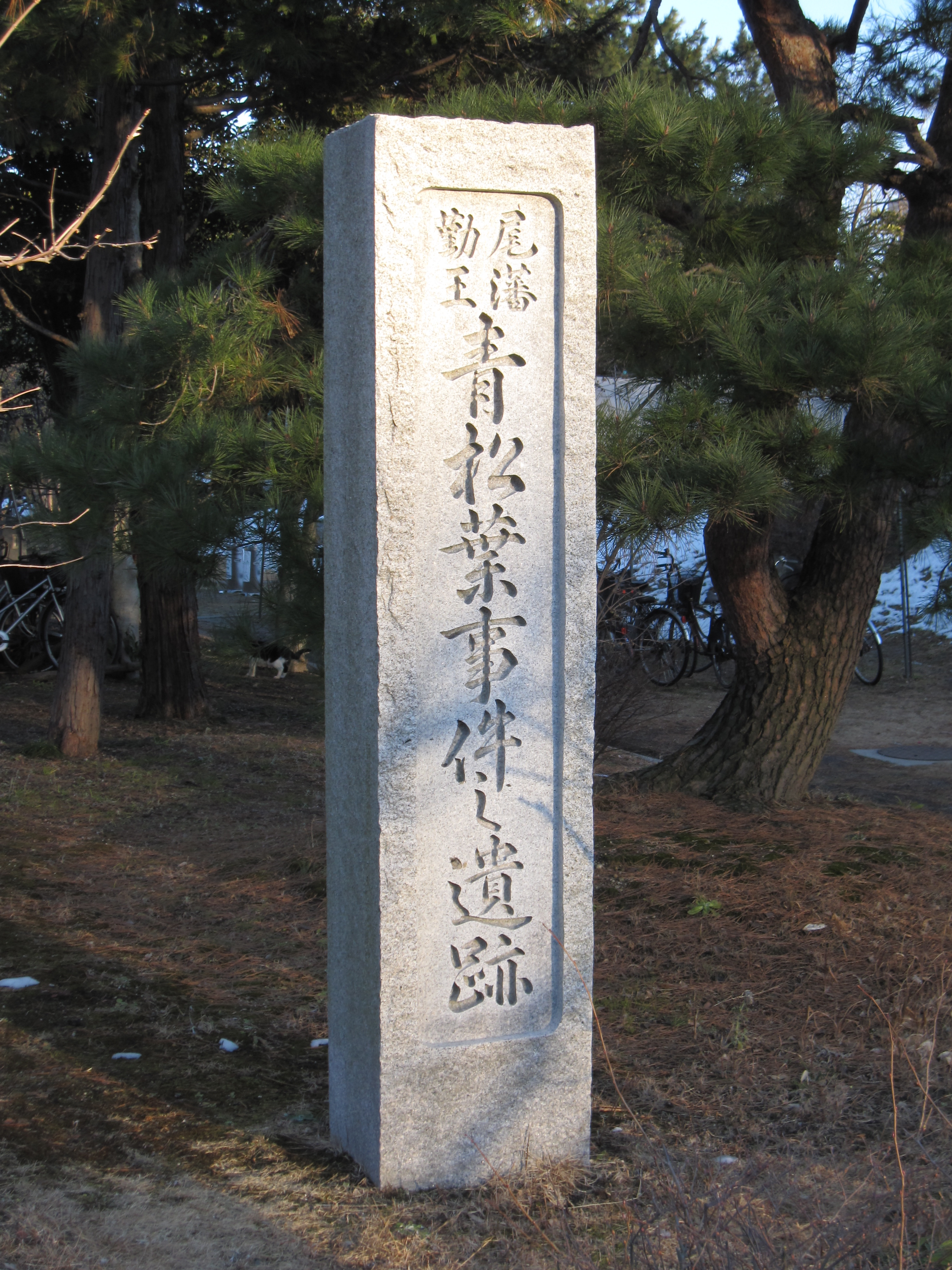 Three chief retainers of the Owari branch of the ruling Tokugawa clan were executed in the Ninomaru Palace of Nagoya Castle in 1868, what became known as the Aomatsuba Incident. Early in the Showa era, around 1926, a monument was erected at the execution site. The exact site is unknown although it is thought to have taken place approximately 100 metres south of the current site of the monument. The stone stelae was re-erected after the original one disappeared.